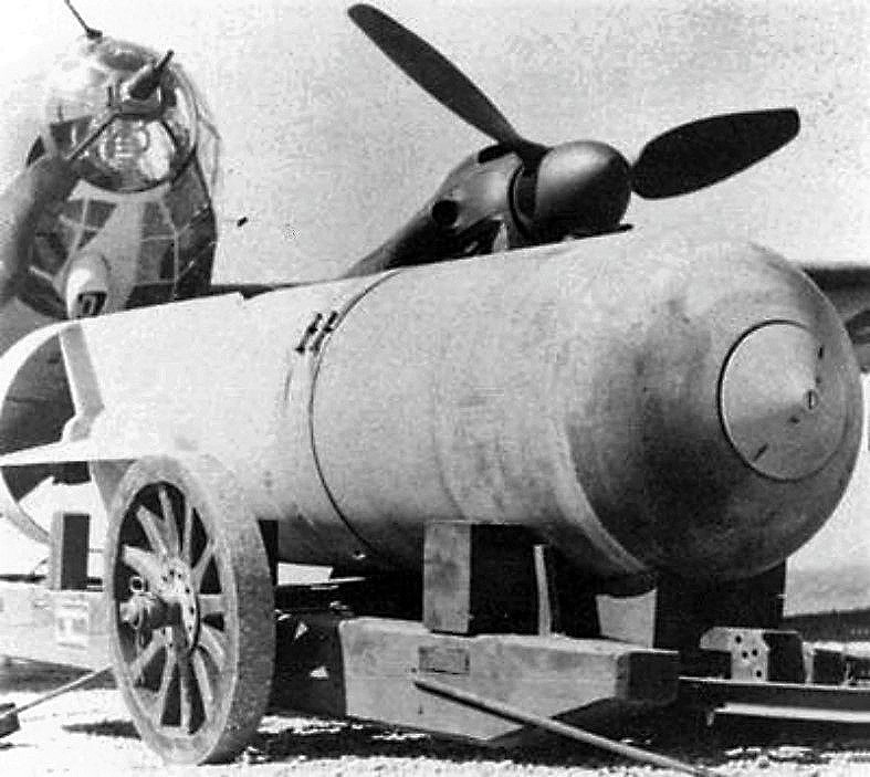 A German Heinkel He 111H/P bomber with an SC 2500 bomb.